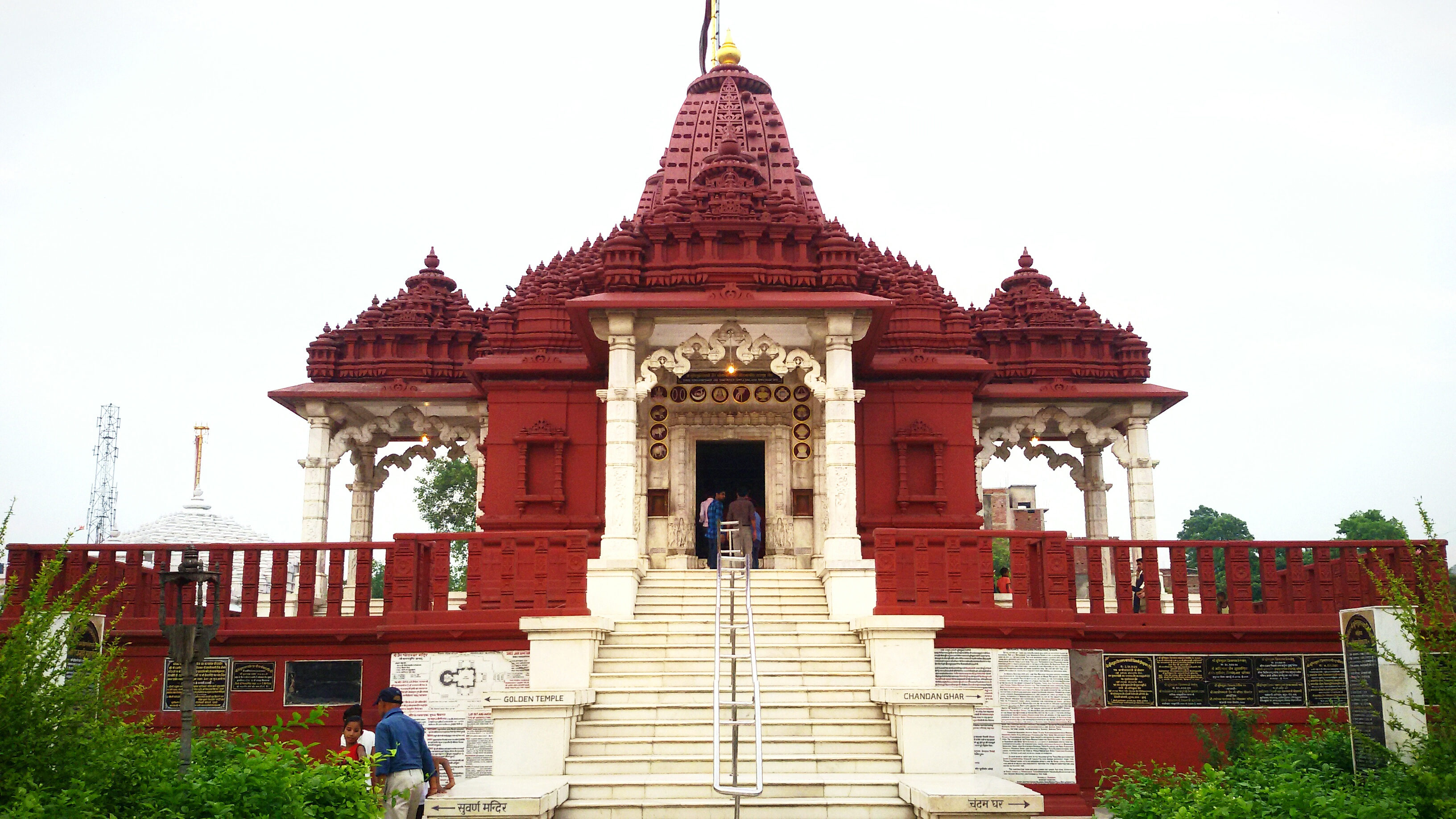 This temple is spread over an area of 8700 feet without the use of metal while the urn’s main peak has been built with white marble.